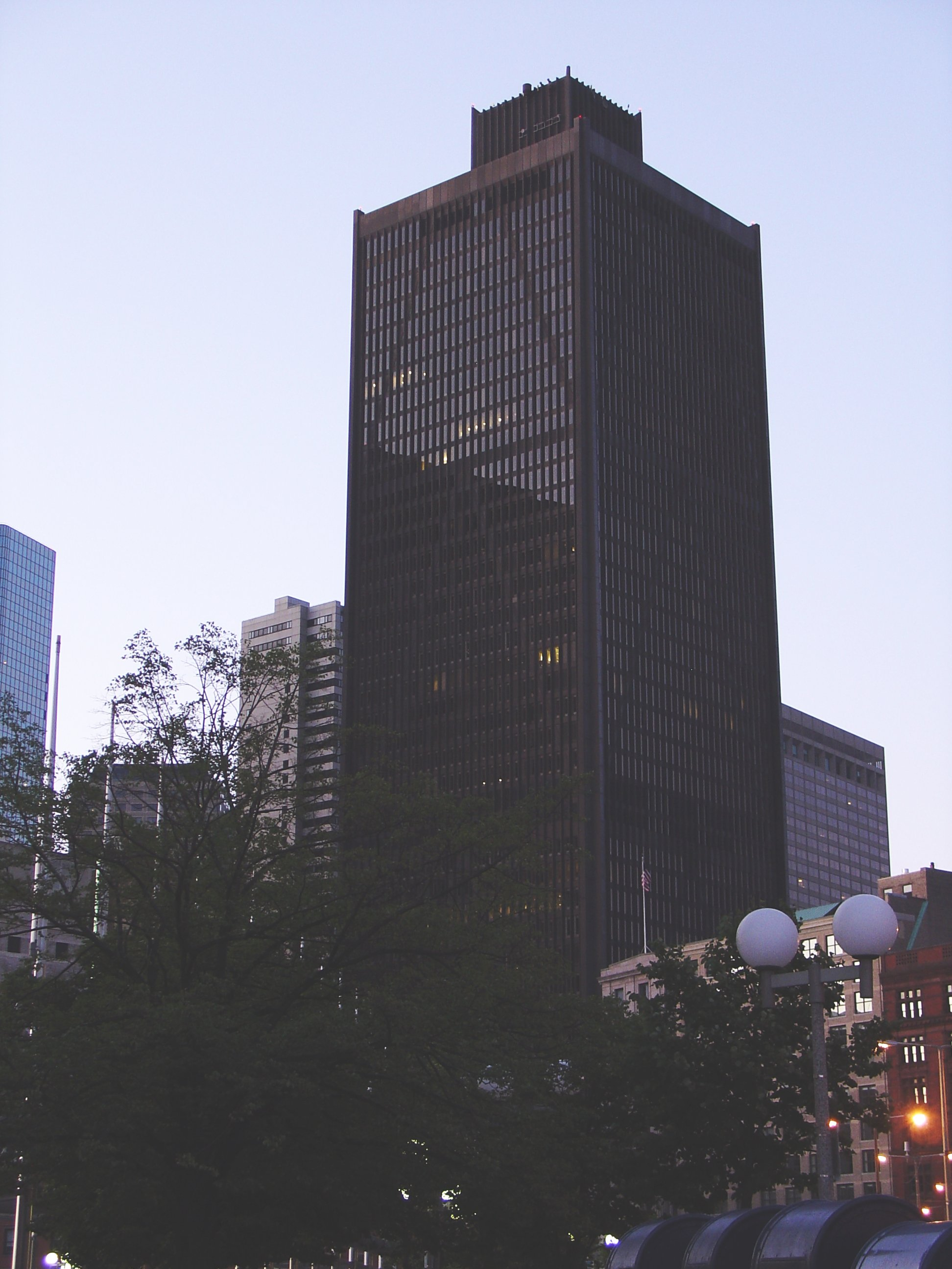 One Boston Place, Boston, Architect Pietro Belluschi